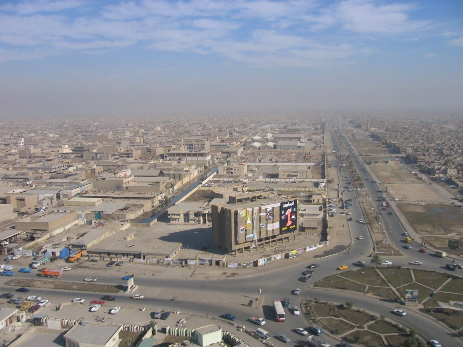 View of Sadr City in the days preceding the December 2005 Iraqi legislative election.